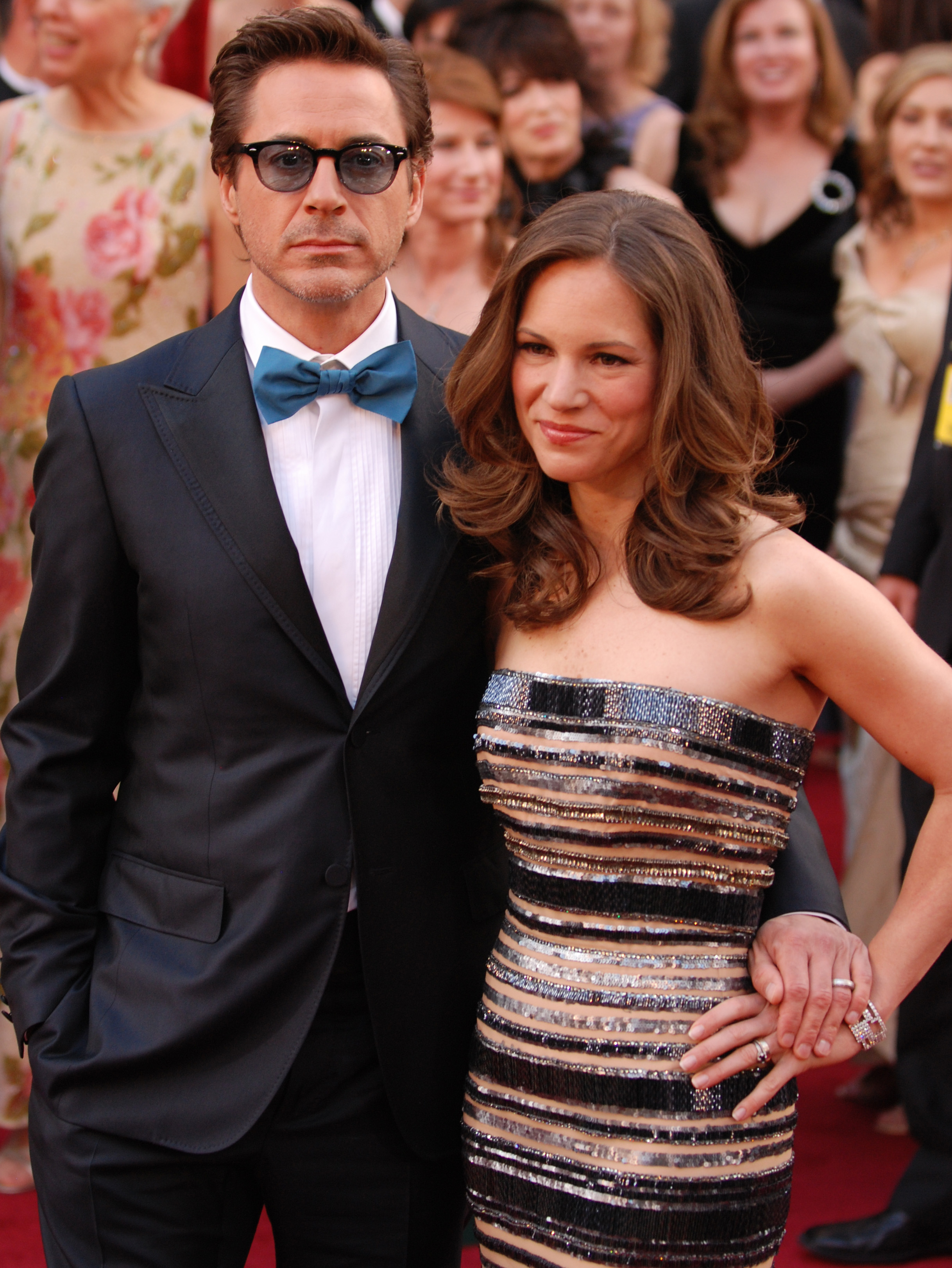 Robert Downey Jr. and wife Susan arrive at the 82nd Academy Awards, March 7, in Hollywood, Calif.